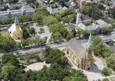 Kispest, Budapest, district XIX, Hungary, aerial photography